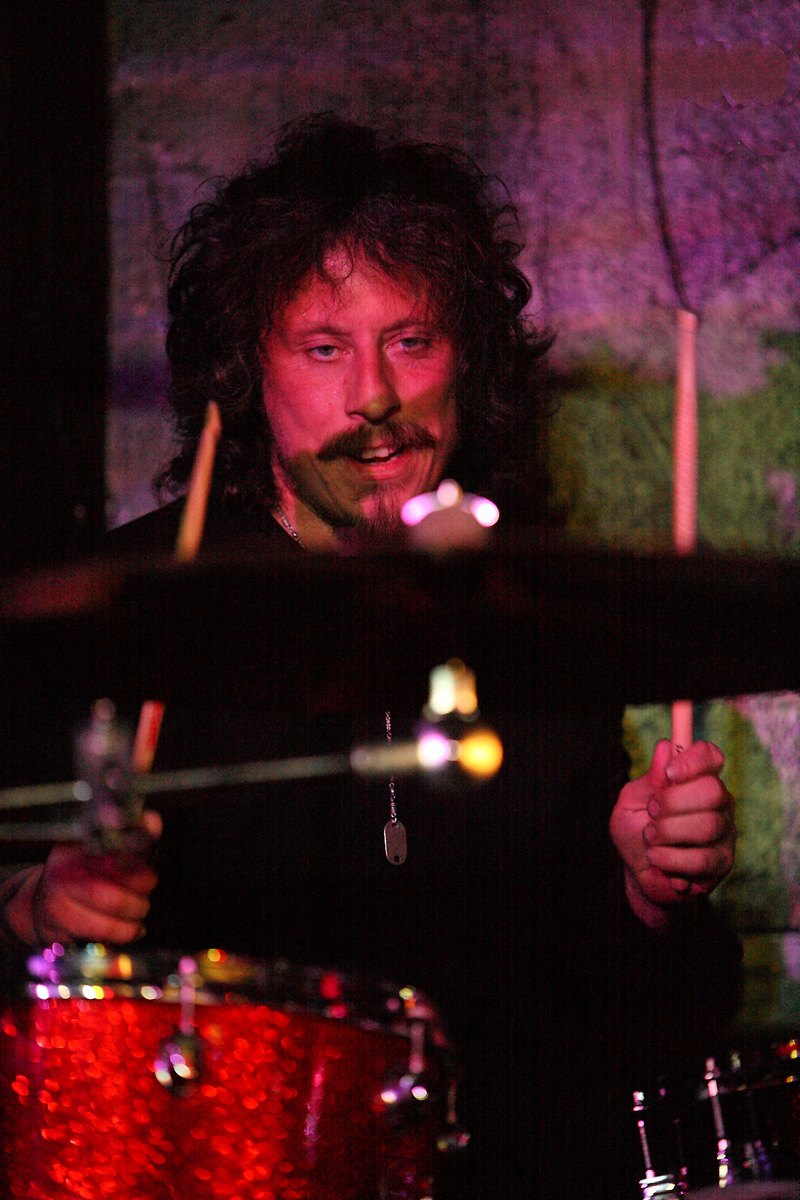 Stuart Cable with Killing for Company at The Citrus Club, Edinburgh